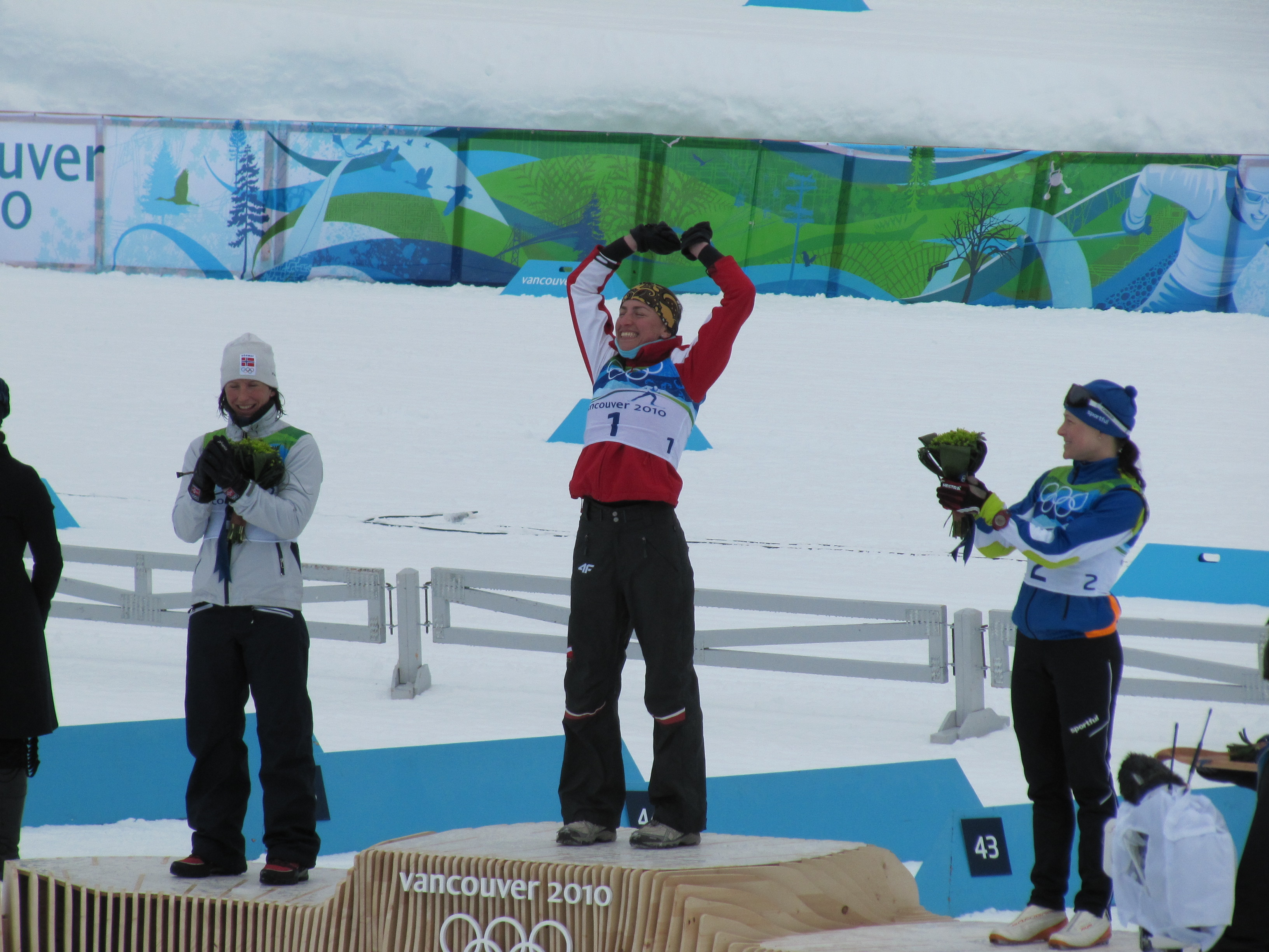 Marit Bjoergen of Norway celebrates winning silver, Justyna Kowalczyk of Poland gold and Aino-Kaisa Saarinen of Finland bronze during the flower ceremony for the ladies' 30 km mass start cross-country skiing classic on day 16 of the 2010 Vancouver Winter Olympics at Whistler Olympic Park Cross-Country Stadium on February 27, 2010 in Whistler, Canada.